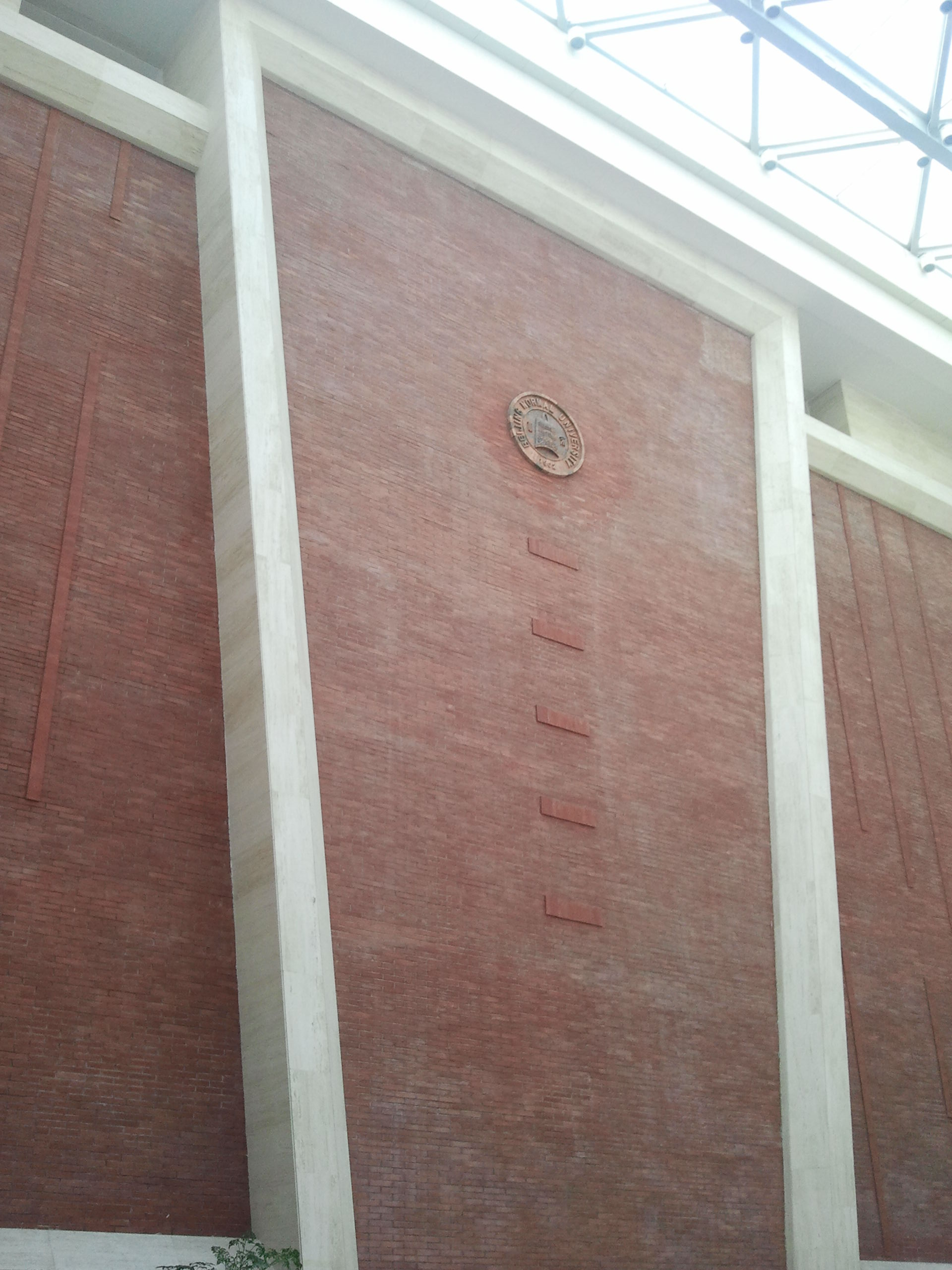 In the second floor of the library